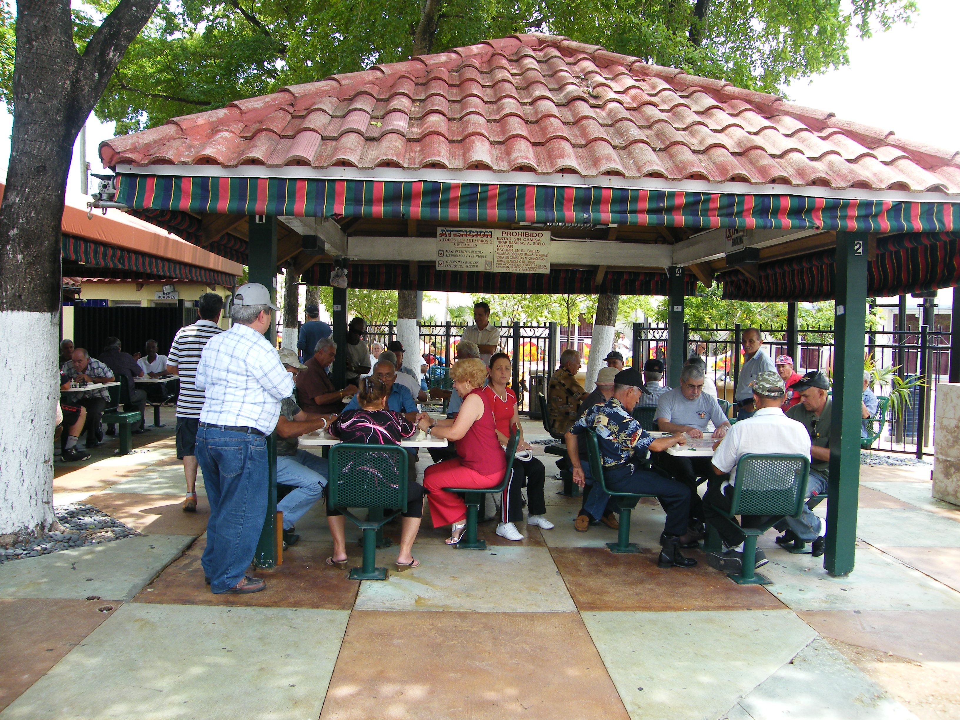 Maximo Gomez Park